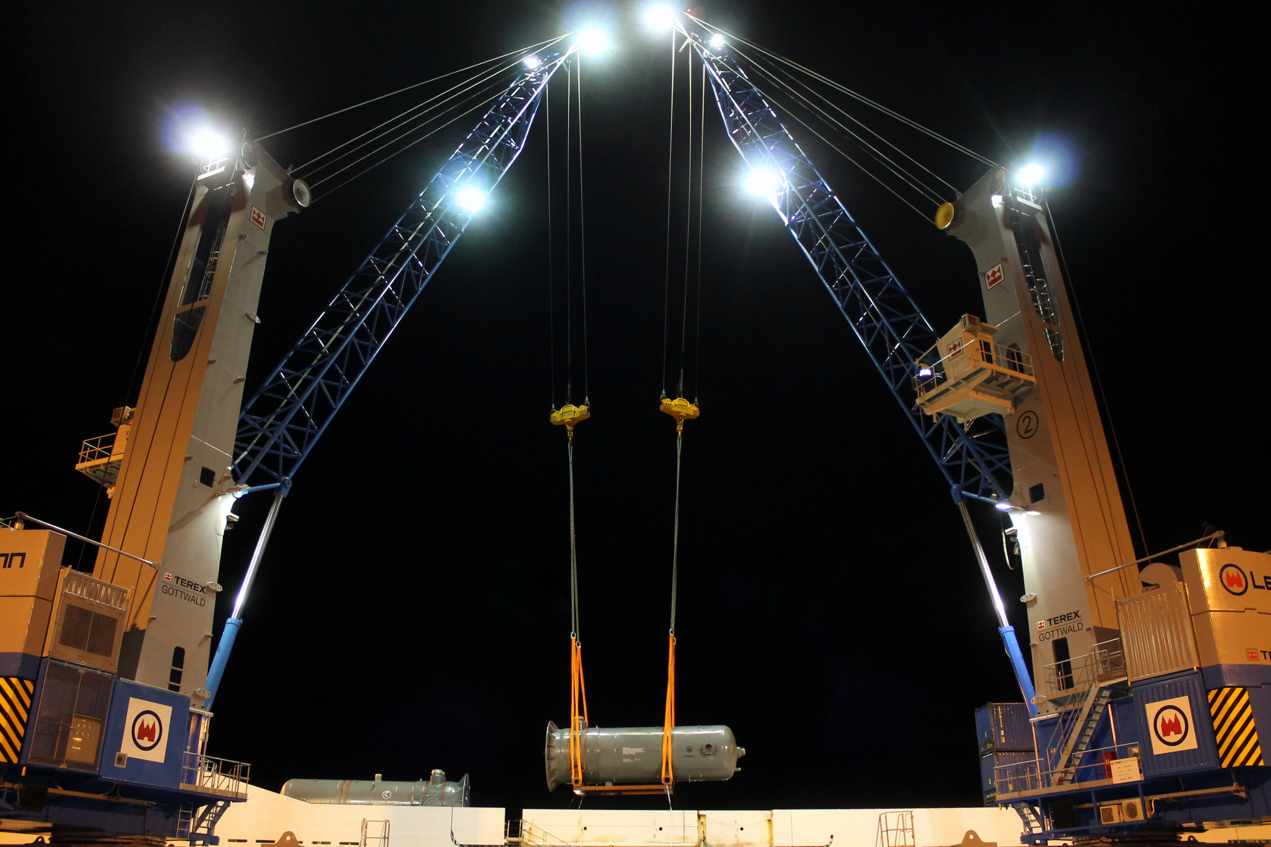 Schergutumschlag am CTL